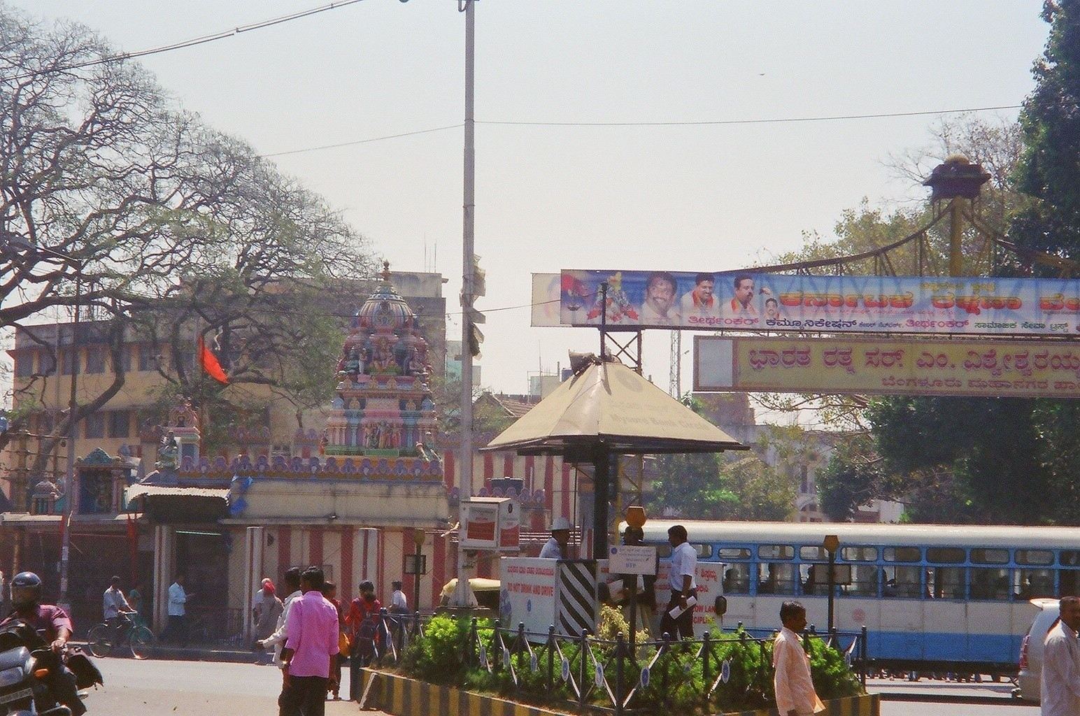 A A temple at the entrance to the Avenuse road in Bangalore